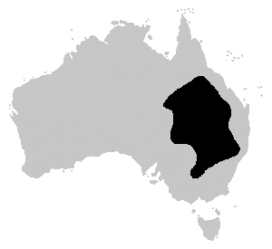 Distribution of the Crucifix Toad (Notaden bennettii). User:Froggydarb/GFDL-self.